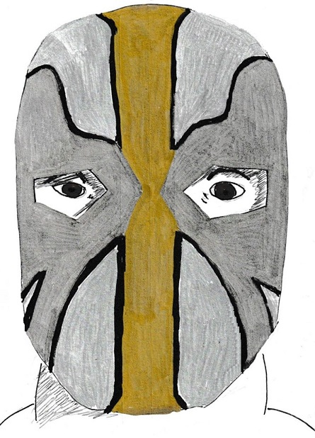 The mask of Angel de Plata that Niebla Roja wrestled under for many years